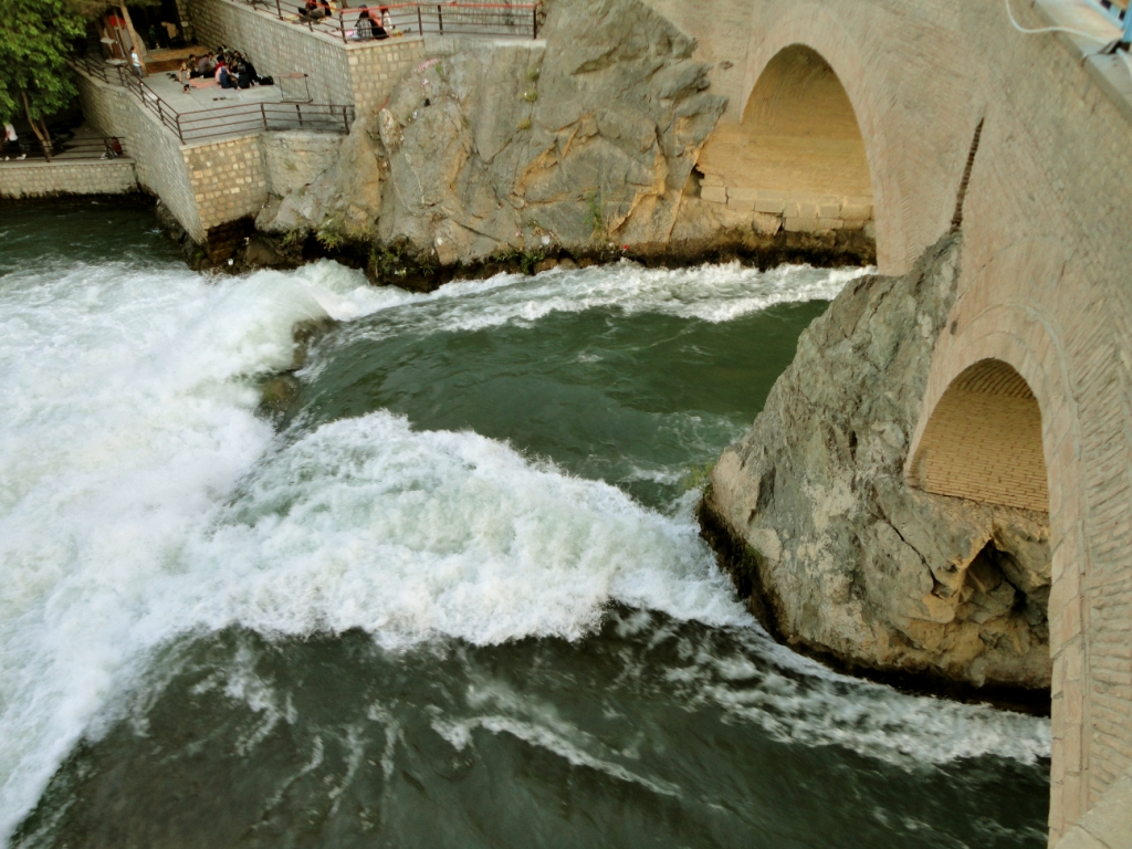 Saman, Iran. zamankhan Bridge